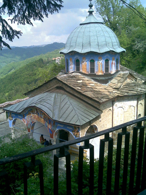 Church of the Sokolski Monastery